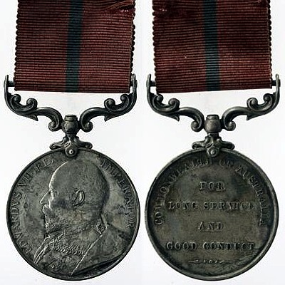 The King Edward VII version of the Army Long Service and Good Conduct Medal (Commonwealth of Australia)